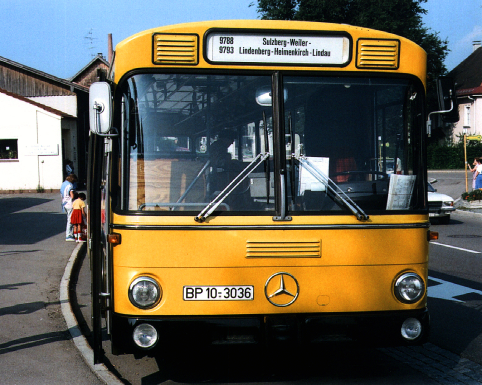 Mercedes-Benz O 307 Postbus at Lindenberg train station in Lindenberg im Allgäu, Bavaria